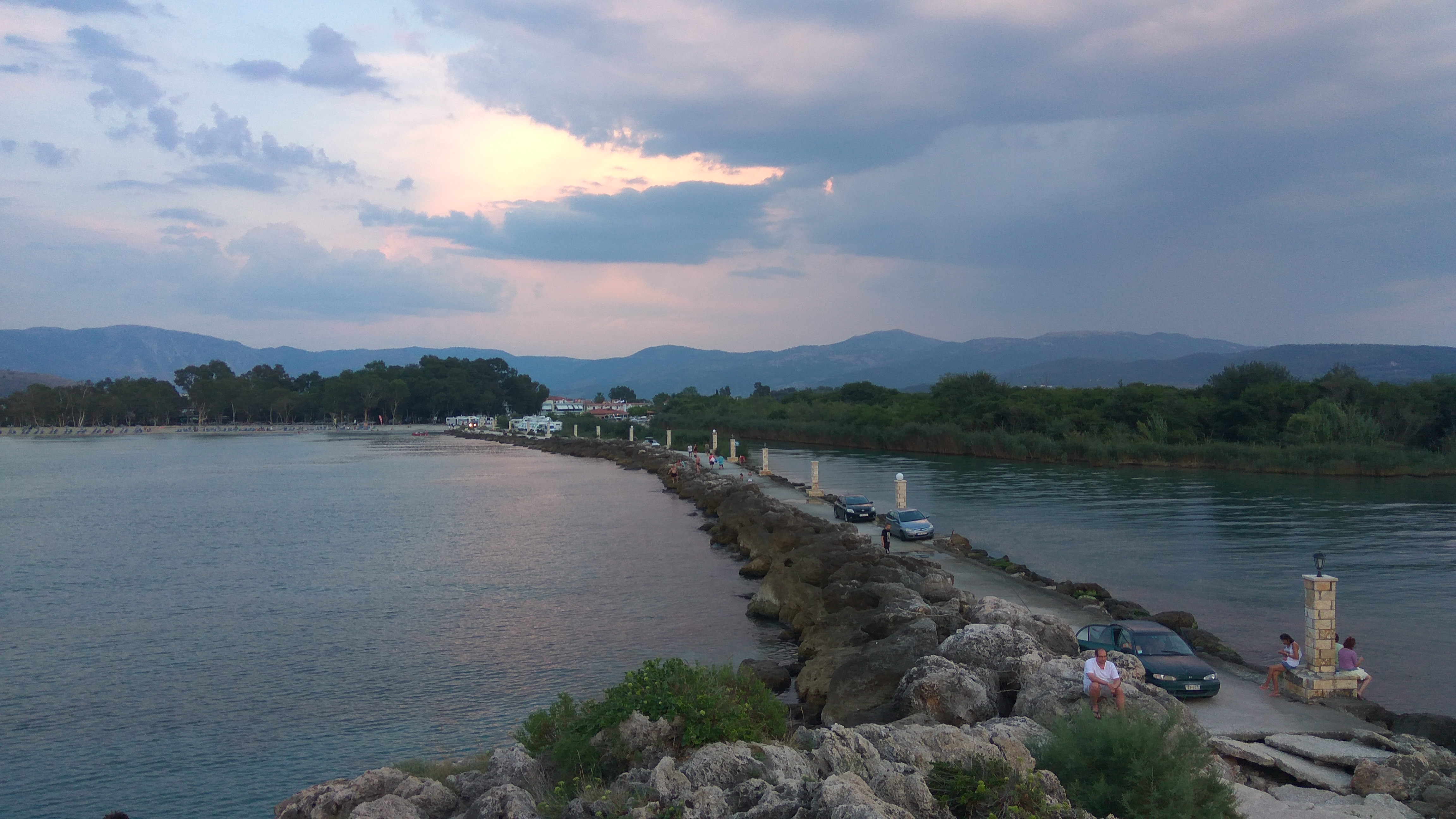 This is a photography of Natura 2000 protected area with ID GR2140003